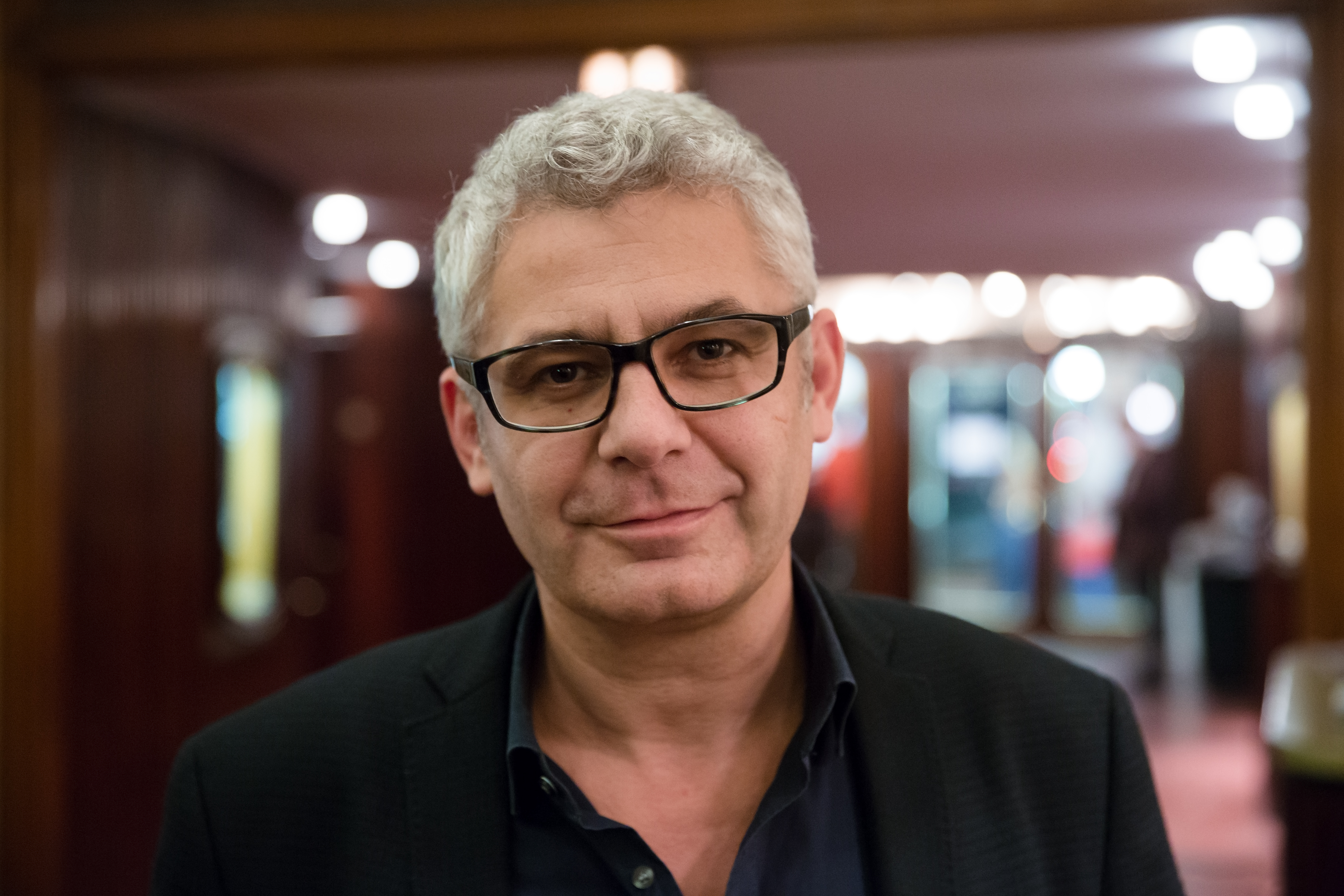 David Bernet at the Austrian premiere of his documentary film Democracy at Filmcasino in Vienna, Austria).